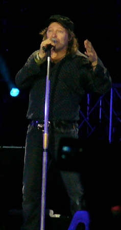 Vasco Rossi in concert.